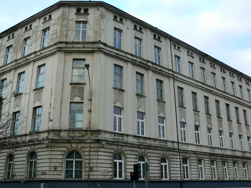 Building of Polish Military Medicine Museum of the Medical University of Łódź, Poland